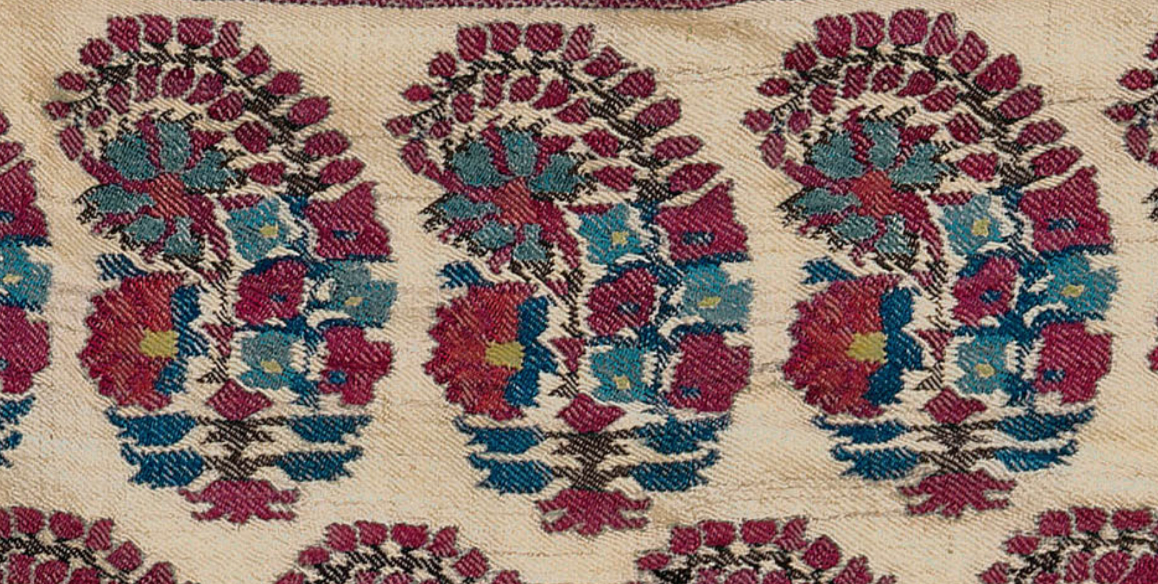 Boteh from an Antique Kashmiri Dochalla Shawl from the 1700s - from the WOVENSOULS collection